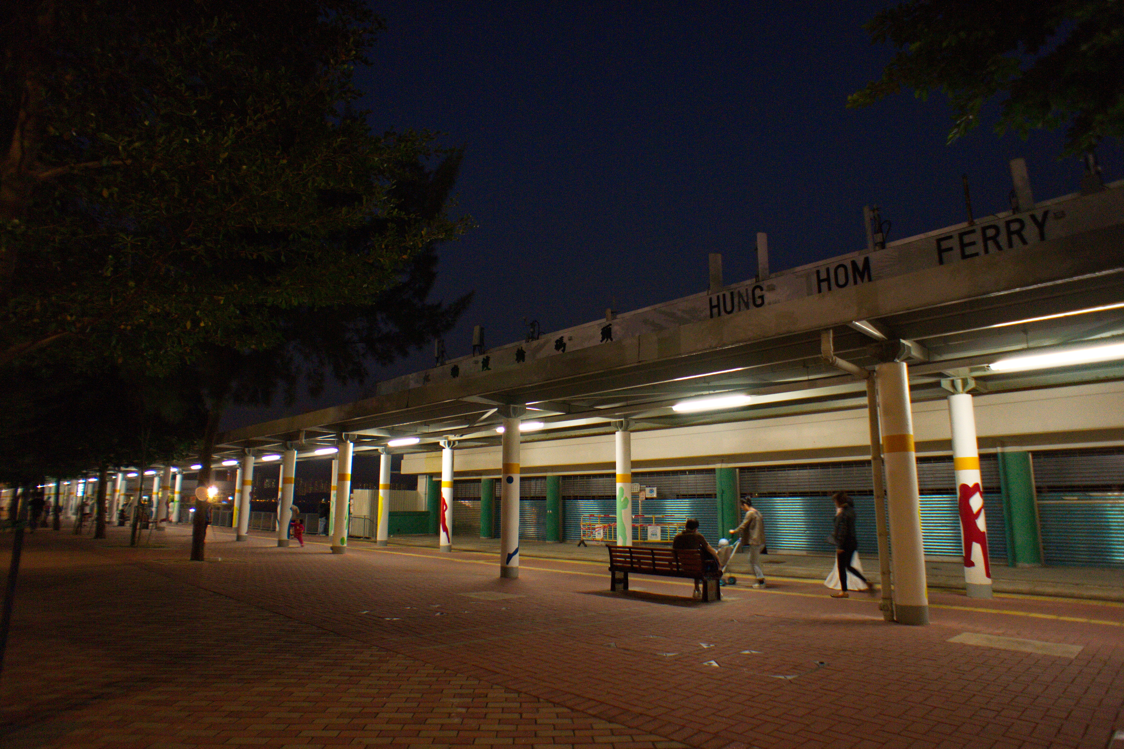 Hung Hom Ferry Piers at dusk, Kowloon, Hong Kong.